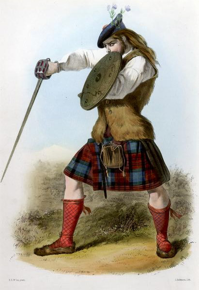 "Maclachlan". A plate illustrated by R. R. McIan, from James Logan's The Clans of the Scottish Highlands, published in 1845.